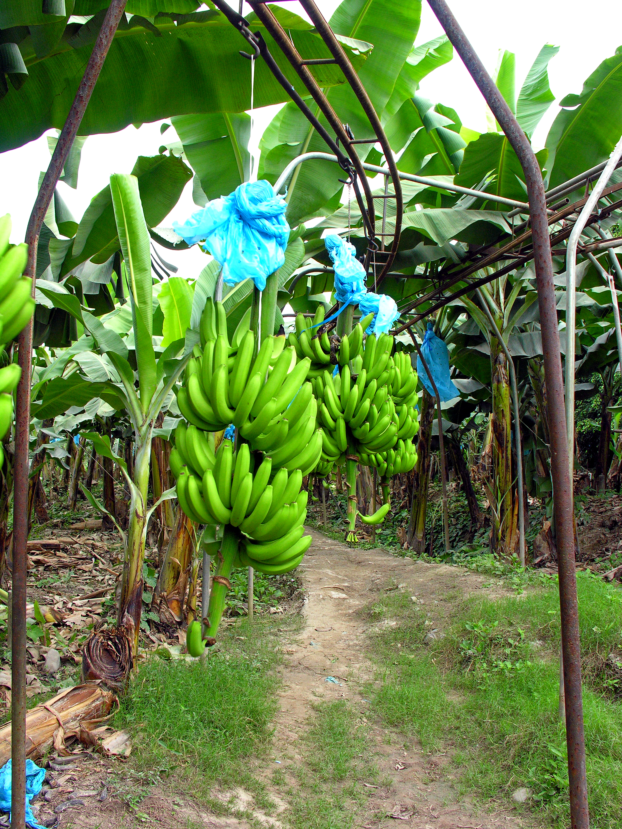 After leaving the site of Quirigua we saw this mechanical rail system that takes bananas to the shipping area. Quirigua, Guatemala Blue things are bags that were over the bananas to protect them from bugs and insects.